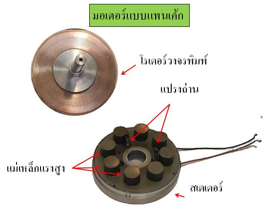 Pancake Motor